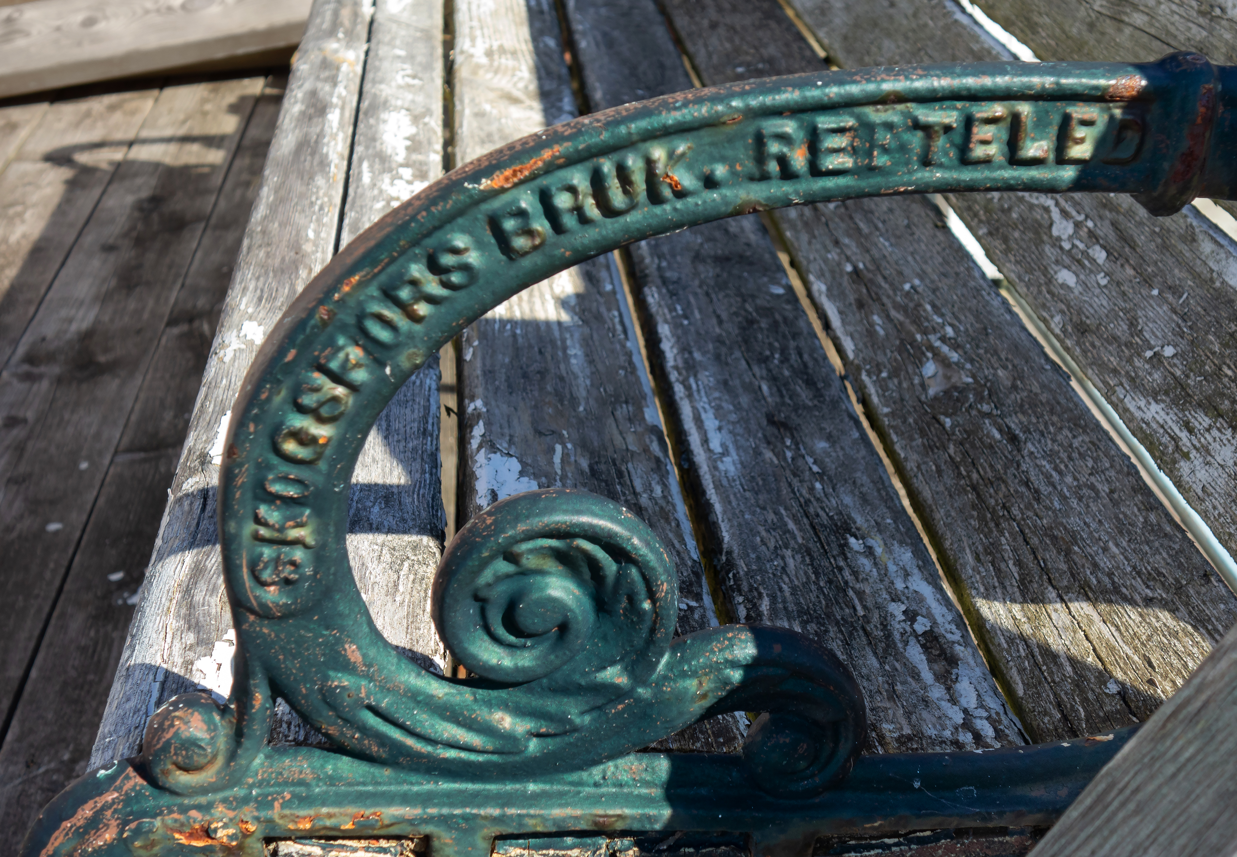 Detail of old cast iron bench made by Skogsfors Bruk. Bench is in Loddebo, Lysekil Municipality, Sweden.